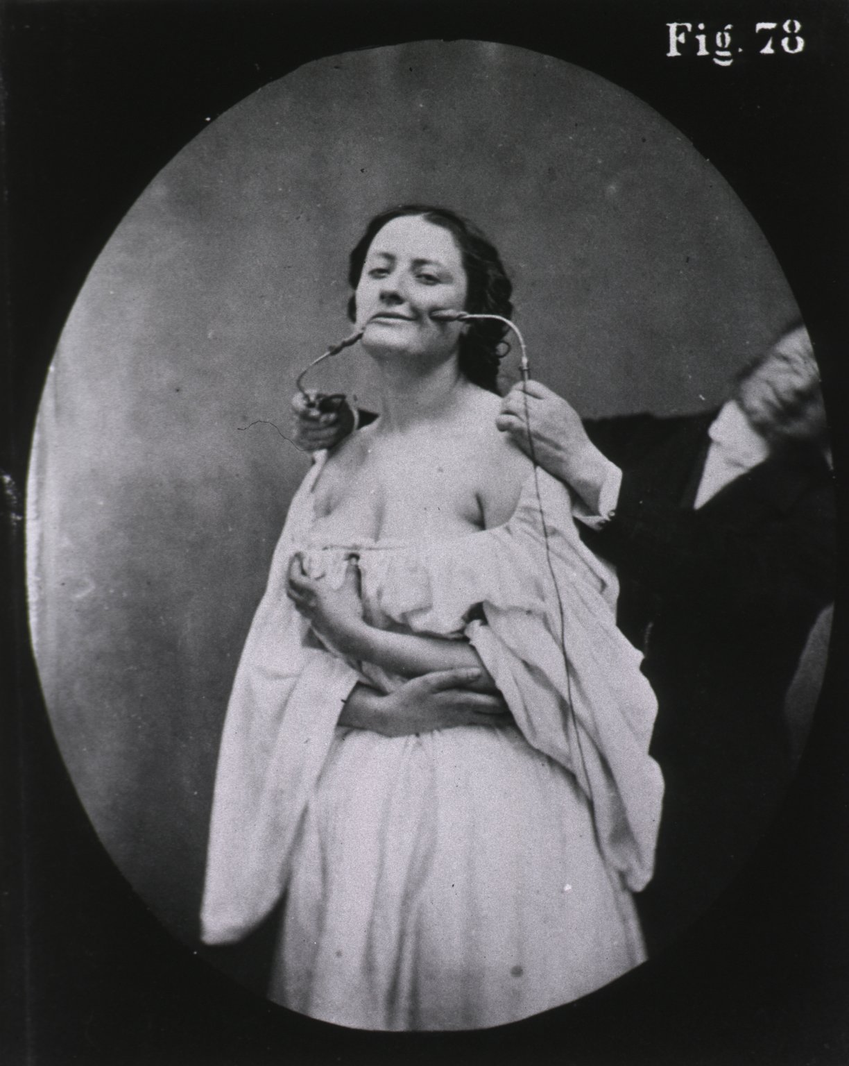 Demonstrating the use of electrotherapy, the author applies electrodes to the cheeks of a woman to stimulate the facial muscles.